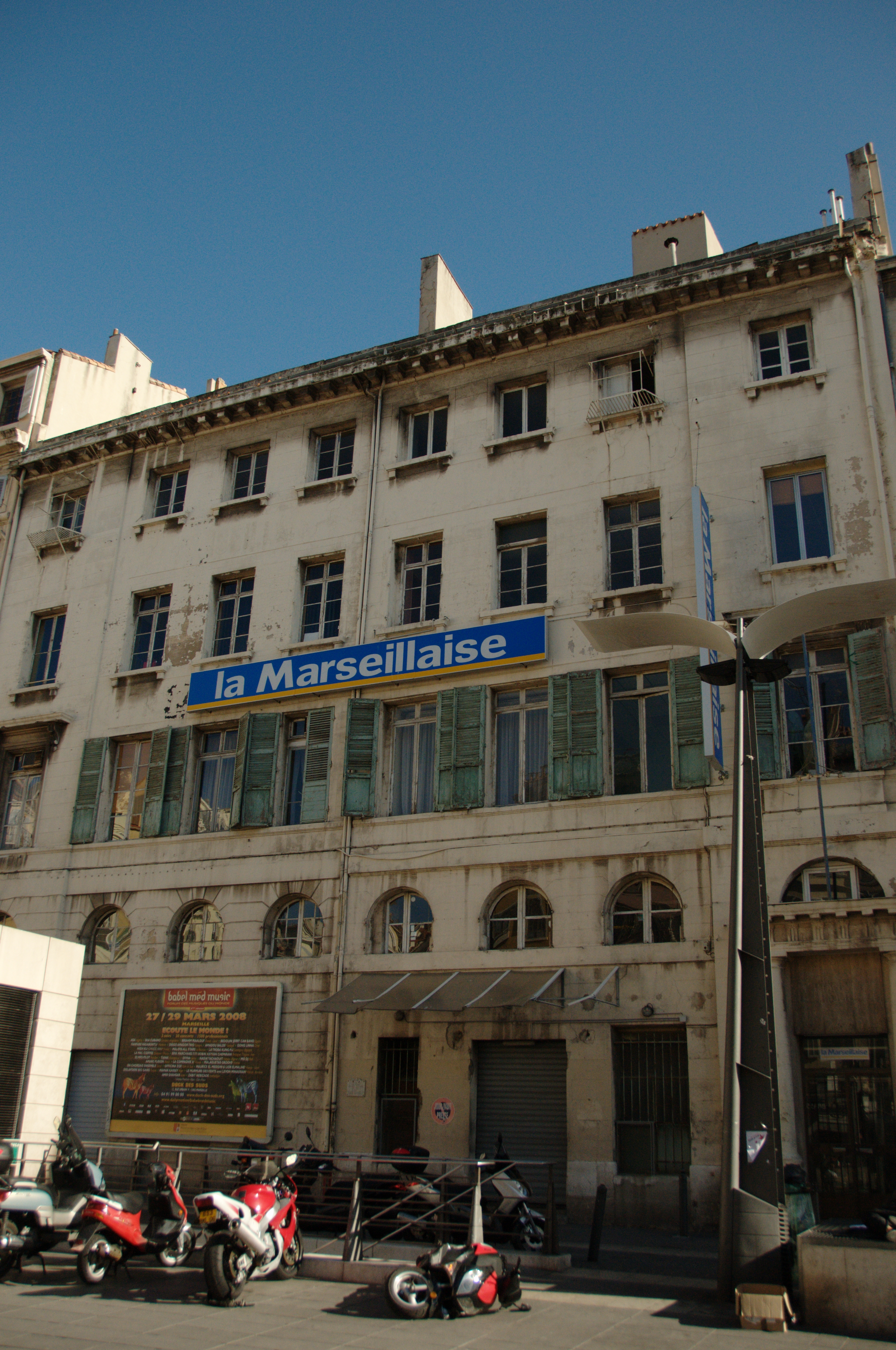 Headquarters of the daily news La Marseillaise in Marseille